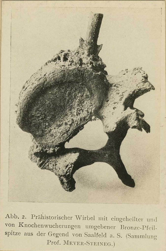 Wound, arrow, prehistoric vertebra. Selected by D. Rose. Text: "Prähistoricher Wirbel mit eingeheilter und von Knochenwucherungen umgebener Bronze pfeil-spitze aus der Gegend von Saalfeld. a. S. (Sammlung Prof. MEYER-STEINEG.)" [Poor translation: "Prehistoric vertebra with more-or-less healthy bone surrounding a bronze-tipped arrow, from the area of Saalfeld. Collection of (Professor Meyer-Steineg.)]